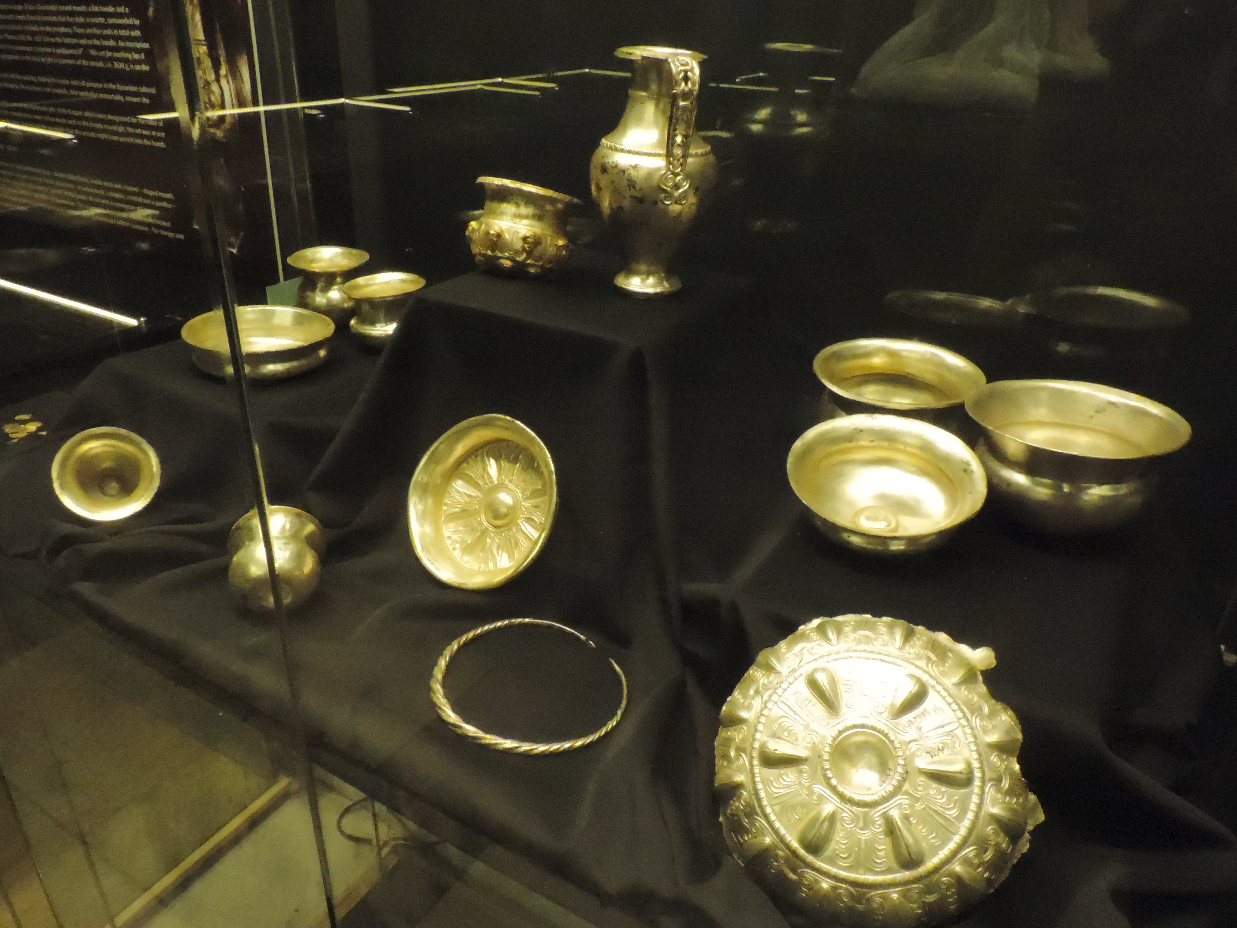 Part of the vessels in Lukovit Thracian Treasure, found near the town of Lukovit, Bulgaria (copy, owned by the Regional History Museum of Lovech, photographed at exhibition in the Regional History Museum of Burgas).